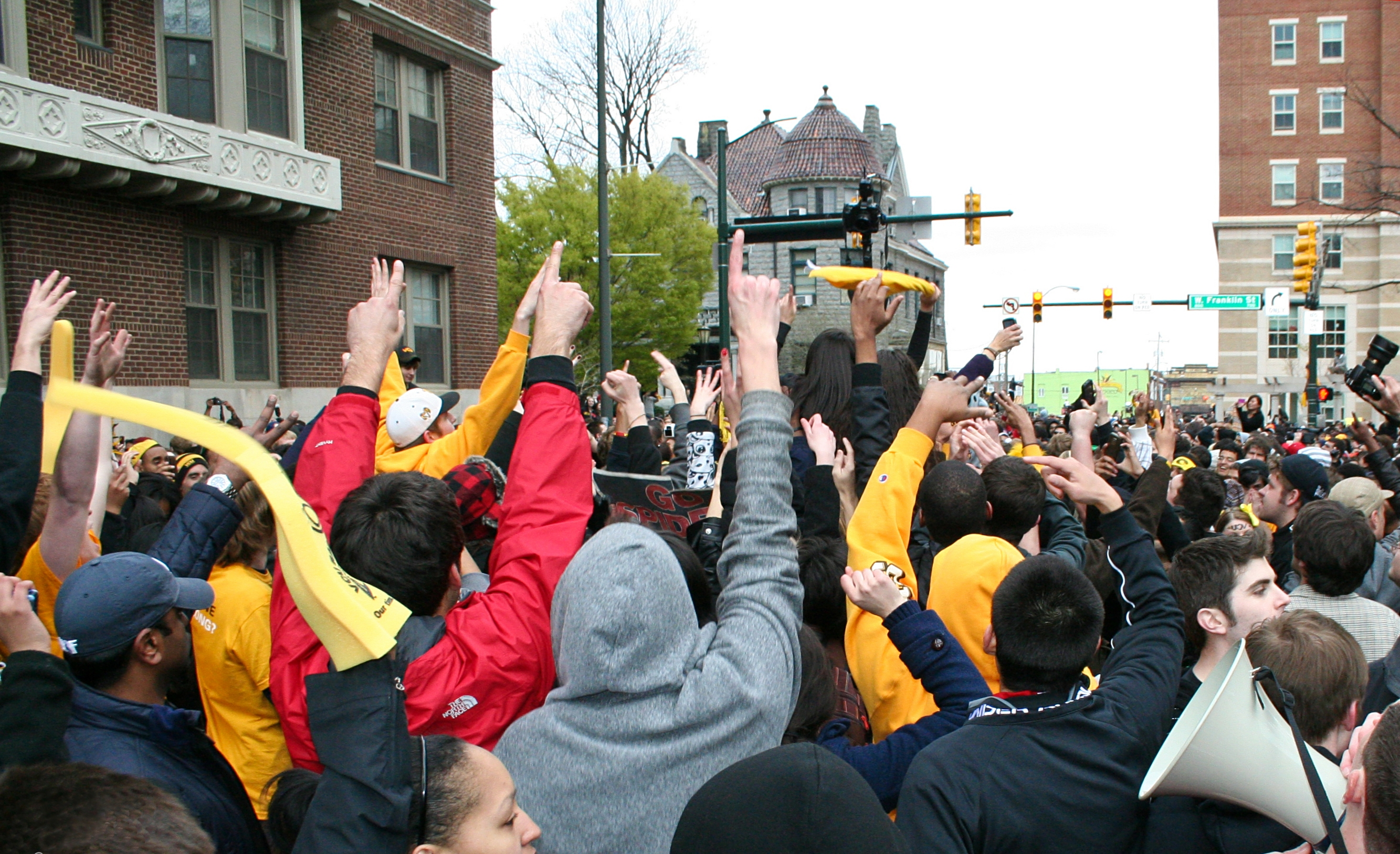 Virginia Commonwealth University students celebrate the men's basketball team's victory over Kansas in the 2011 NCAA Tournament Elite Eight.